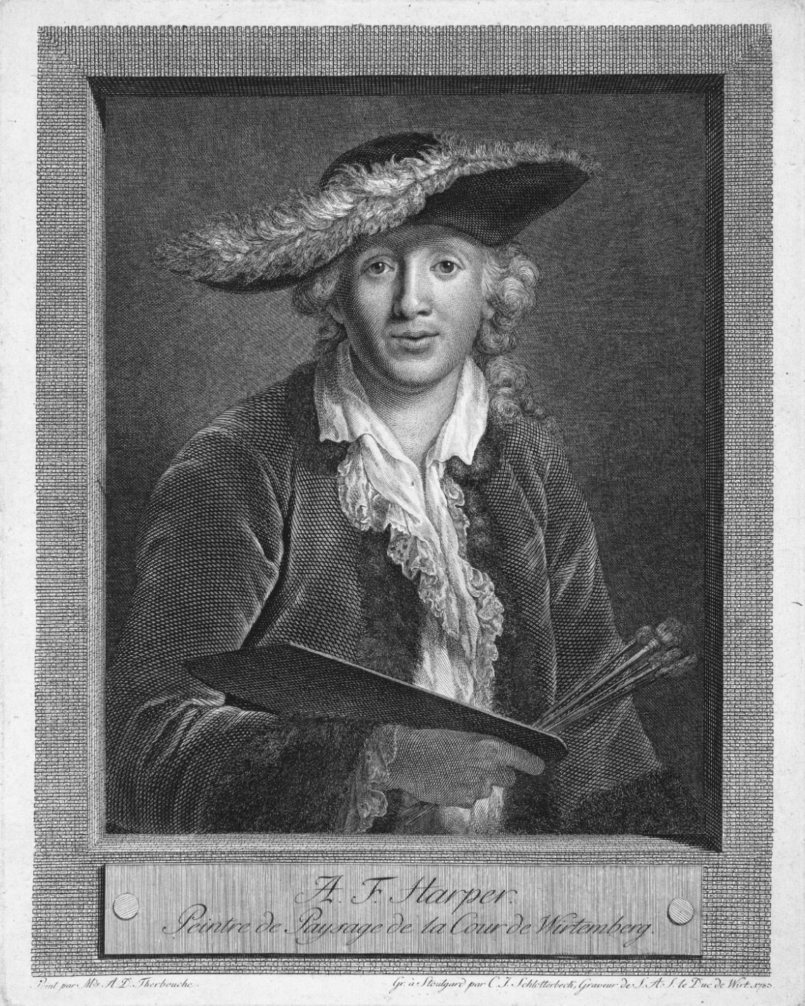 Adolf Friedrich Harper (1725 - 1806), German Landscape Painter at the Court of Würtemburg